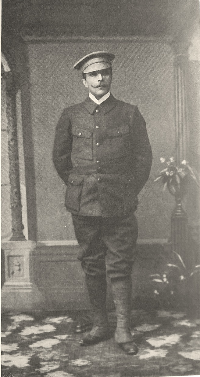 A picture of Benjamin Wegner Nørregaard from his book The Great Siege: The Investment and Fall of Port Arthur, Methuen Publishing, 1906, 308 pages